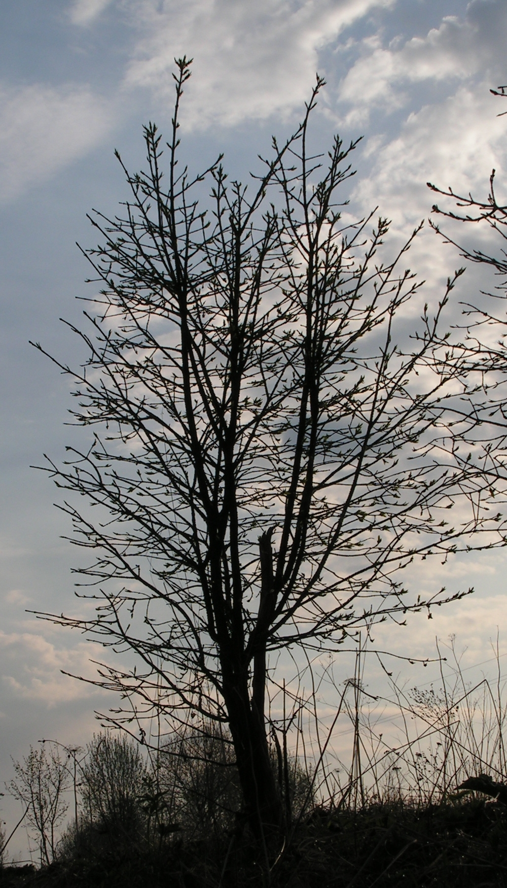 Euonymus verrucosus. Moscow region, Russia.